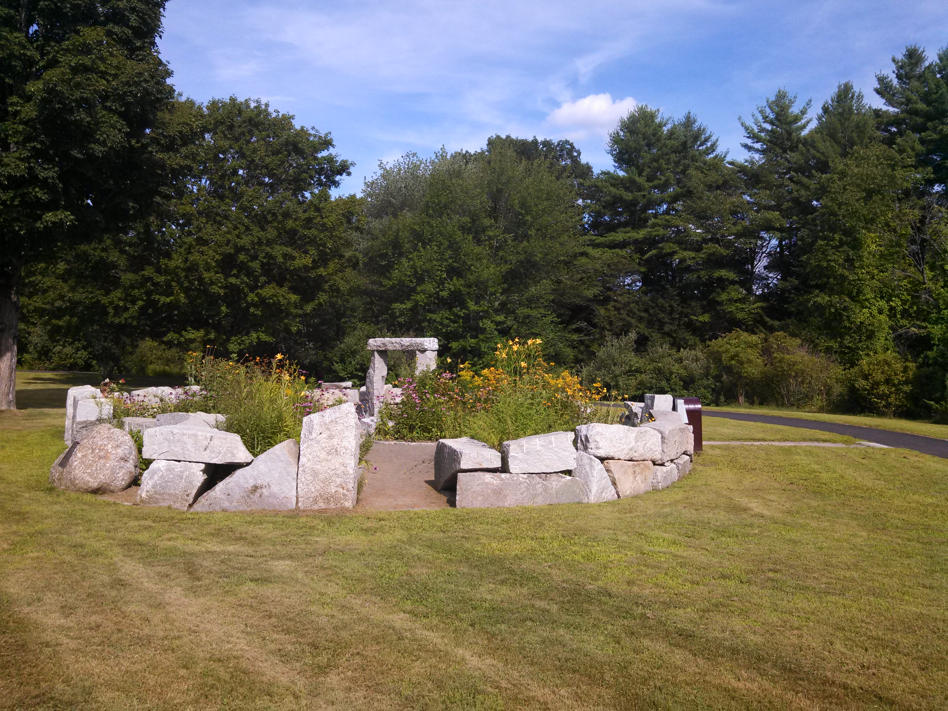 Teixeira Park, West Peterborough New Hampshire - 2013